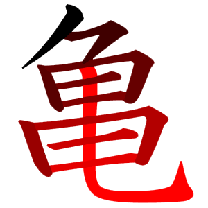 This 亀-red.png image depicting the stroke order of the character 亀 (Variant of Traditional Radical 213) in red.png style. This image is part of the Commons:Stroke Order Project(zh-de-ja), a project to create a complete set of images depicting the right stroke order (Protocols). The 214 Kangxi radicals have been completed. We currently work on the most frequent characters. Help is welcome.